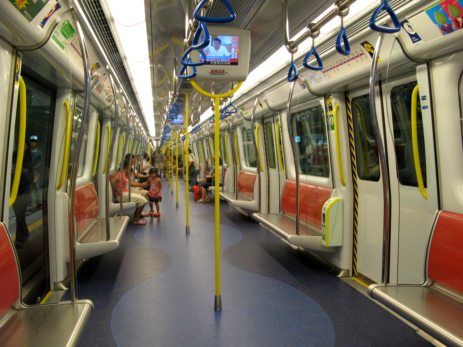 SP1900 West Rail Line Train Interior SP1900/1950型電動列車車內